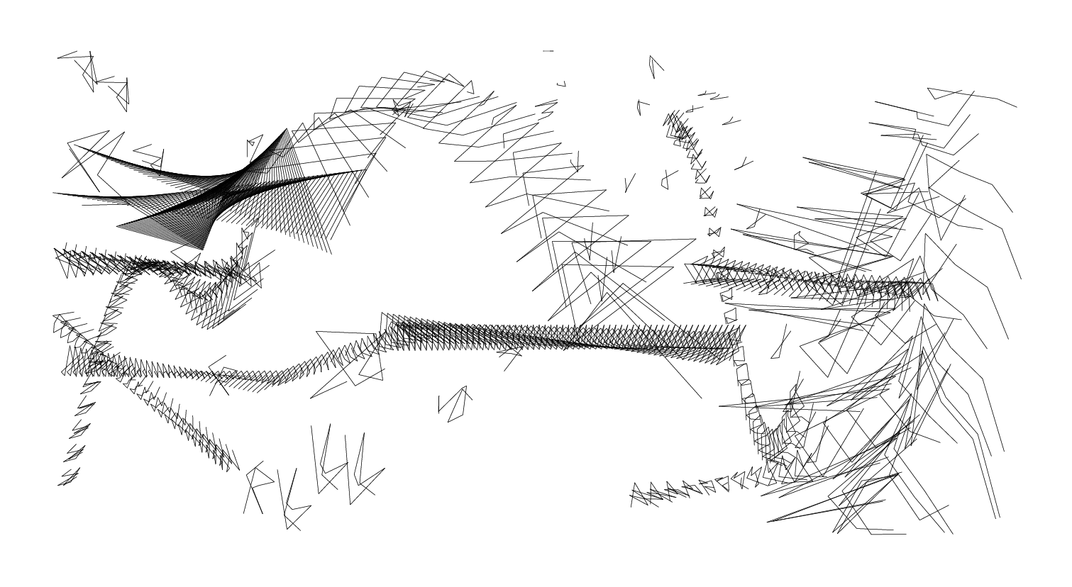 Example of Brun's series "mutatis mutandis"